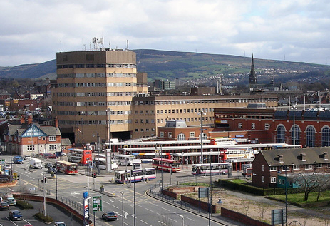 Tameside Council Offices (building demolished in Summer 2016) and Ashton Bus Station on Wellington Road, Ashton-under-Lyne, Greater Manchester, England.